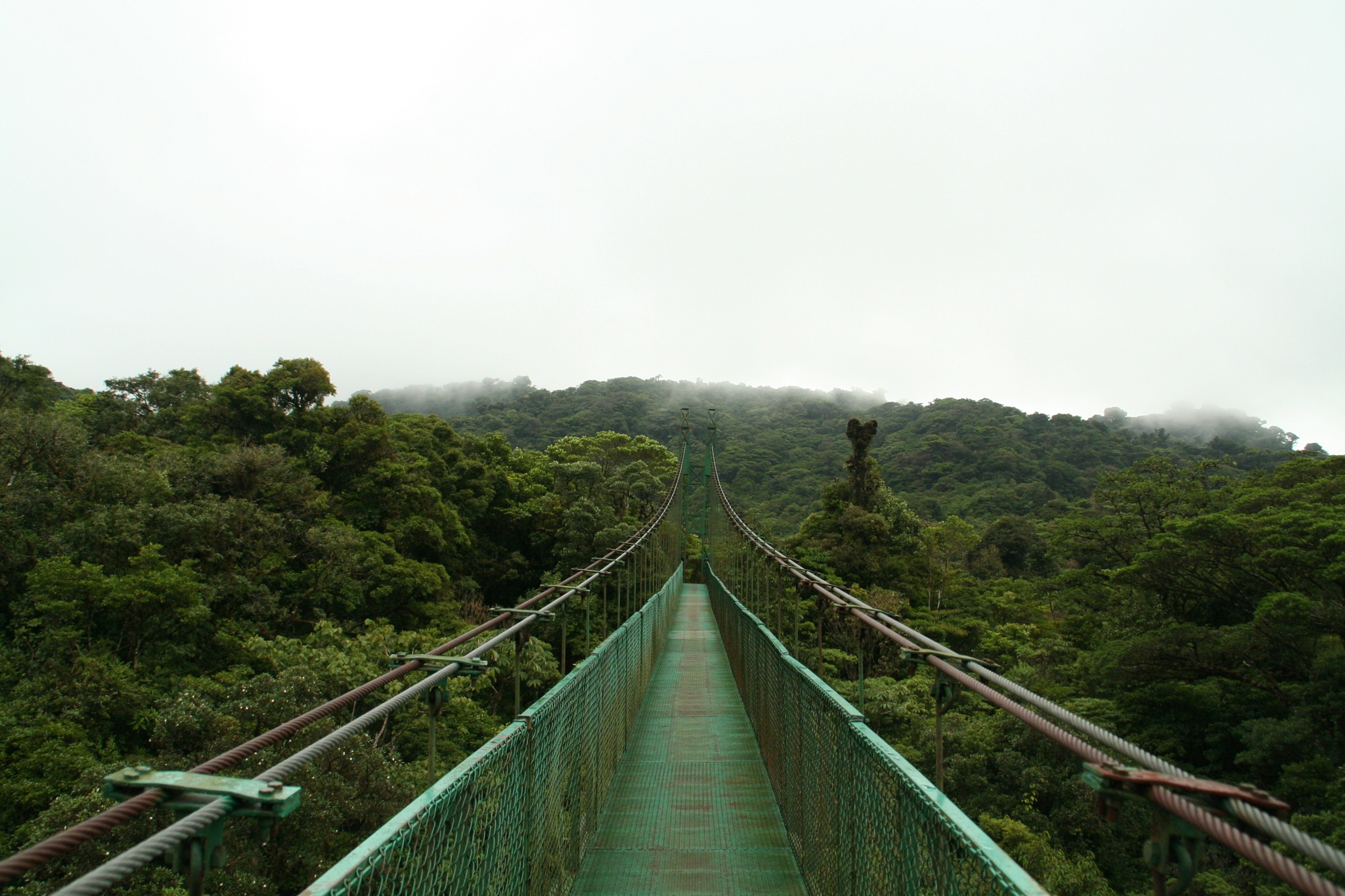 canopy bridge in Monteverde....about 200 feet up